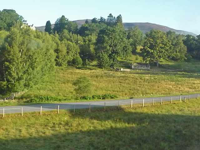 St. Drostan's Chapel, Dunachton